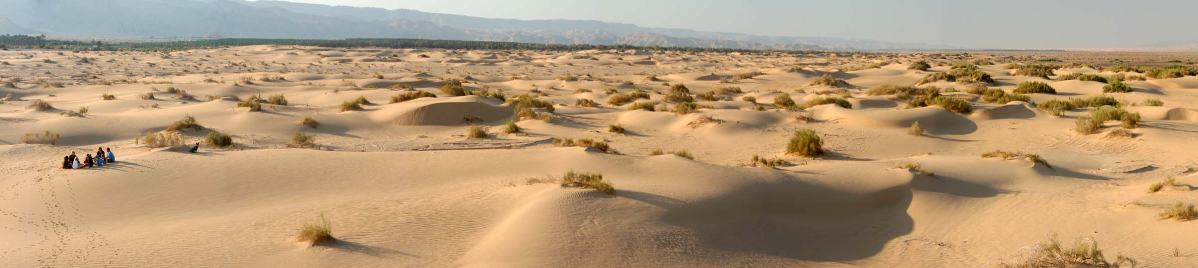 Samar Dunes, Arabah, Israel